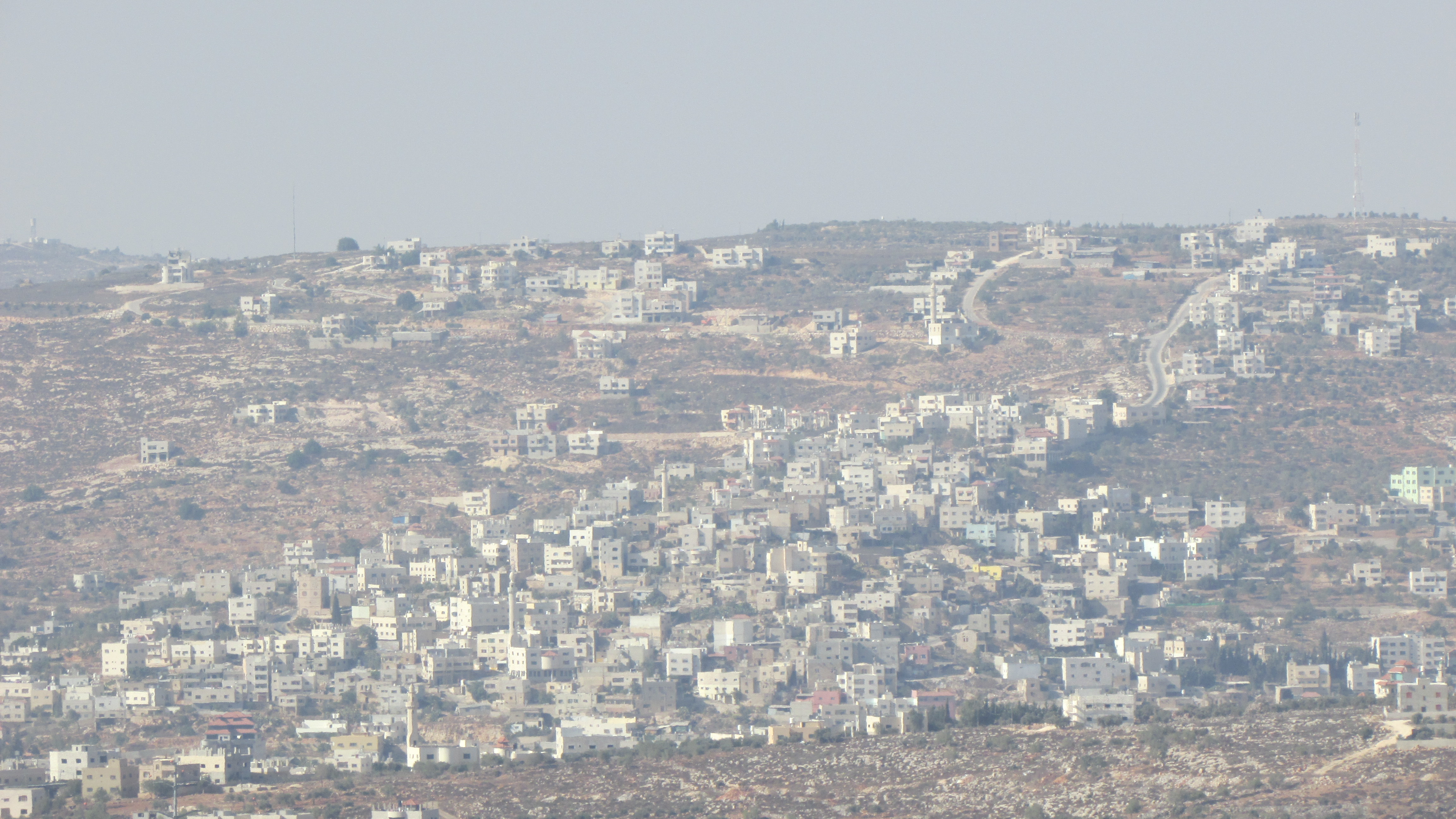 Aqraba, Nablus from the sourth